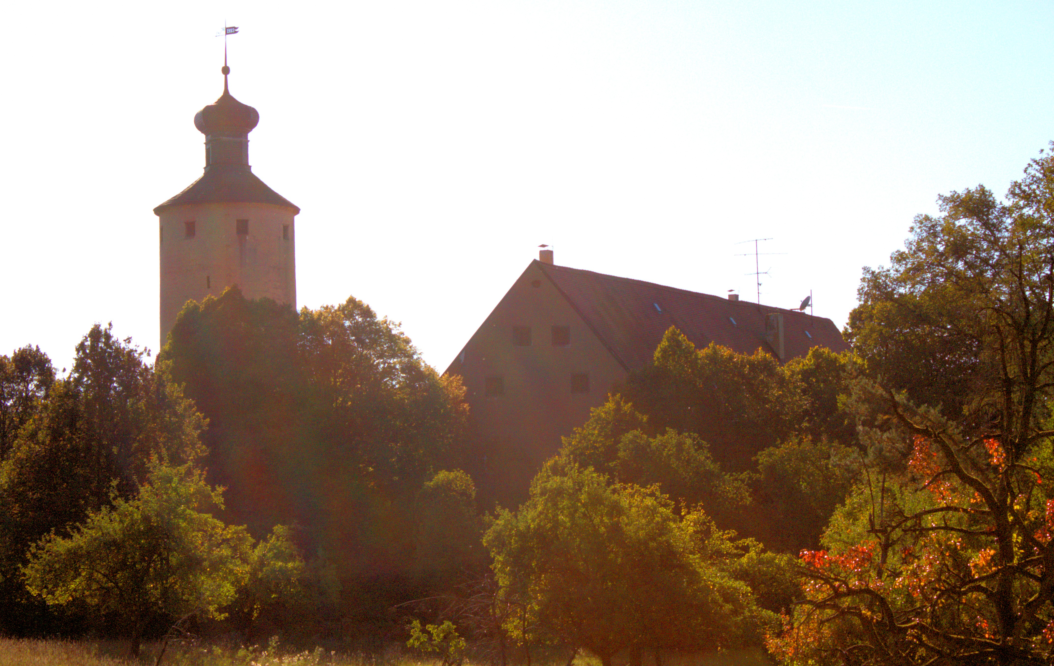 Northeastern view on Schloss Sandsee, Landkreis Weißenburg-Gunzenhausen, Bavaria, Germany